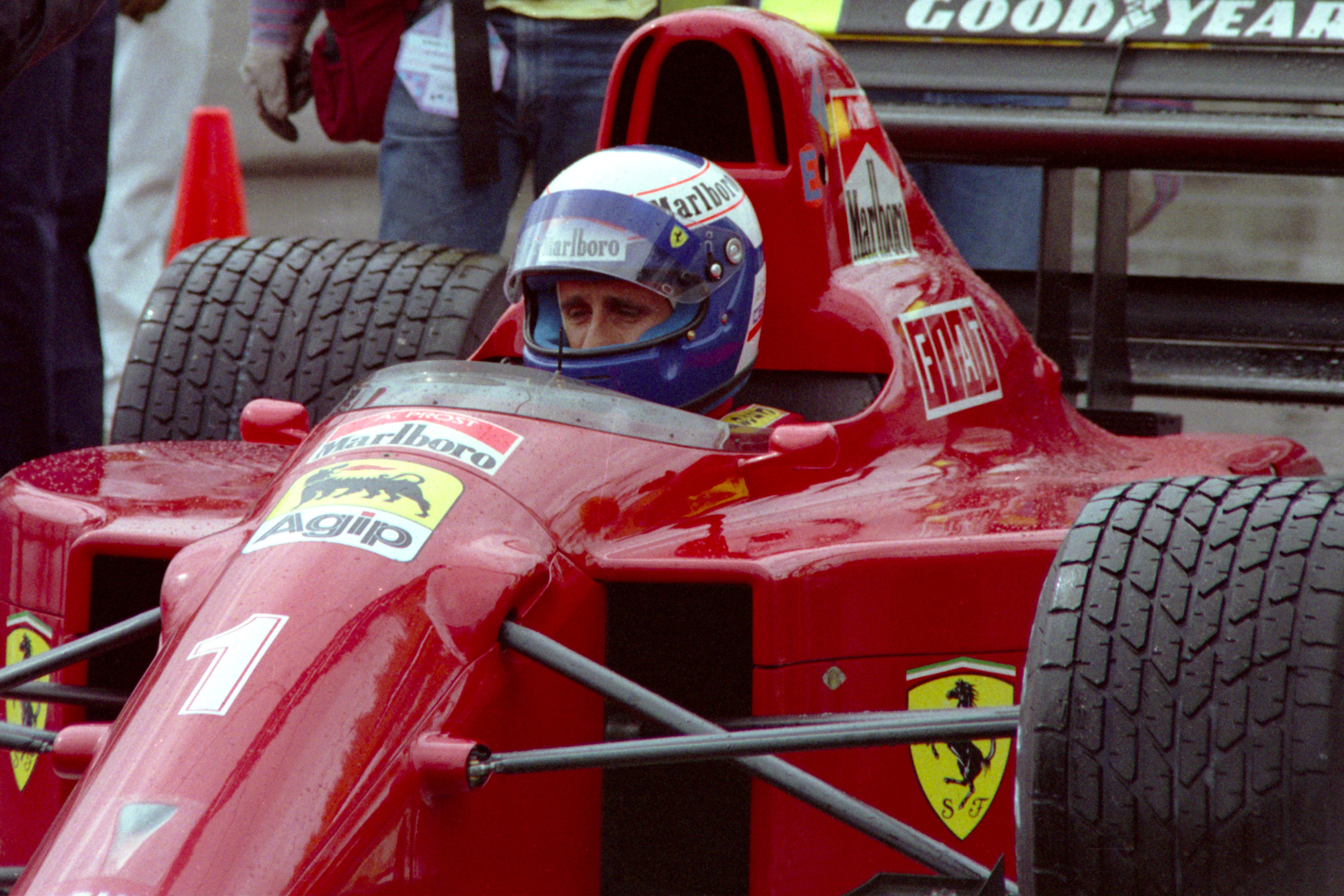 Formula One US Grand Prix at Phoenix, AZ.-March 10th, 1990. Alain Prost in his Ferrari F1-90 after qualifying in the rain - wearing the number 1 earned from his 1989 championship season. Prost retired from the race after 21 laps with an oil leak.